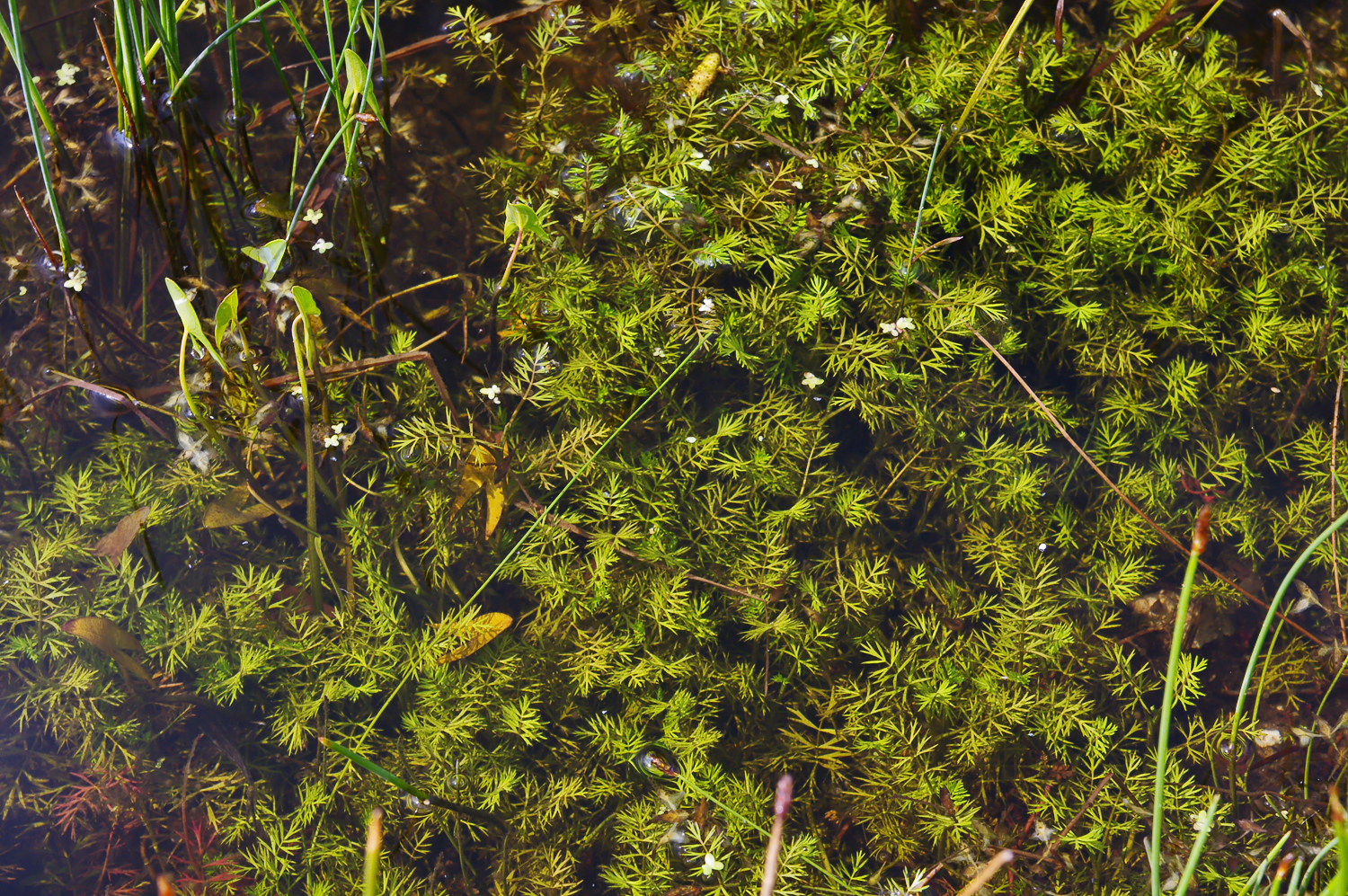 Submerged leaves of Lesser Marshwort, Apium inundatum / Helosciadium inundatum, in clear water.